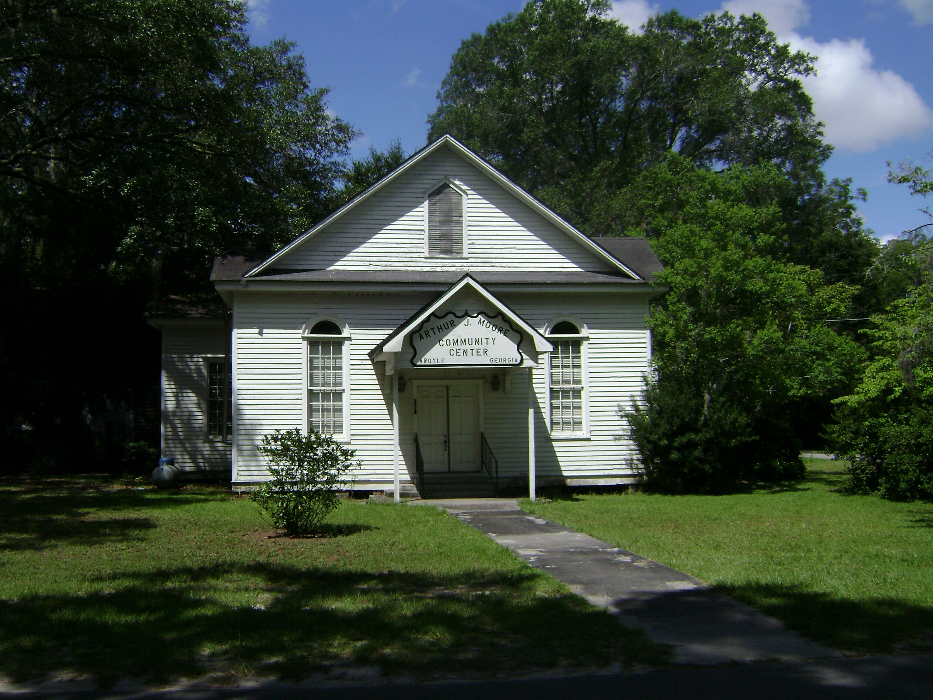 Argyle Community Center in Arglye, Clinch County, Georgia